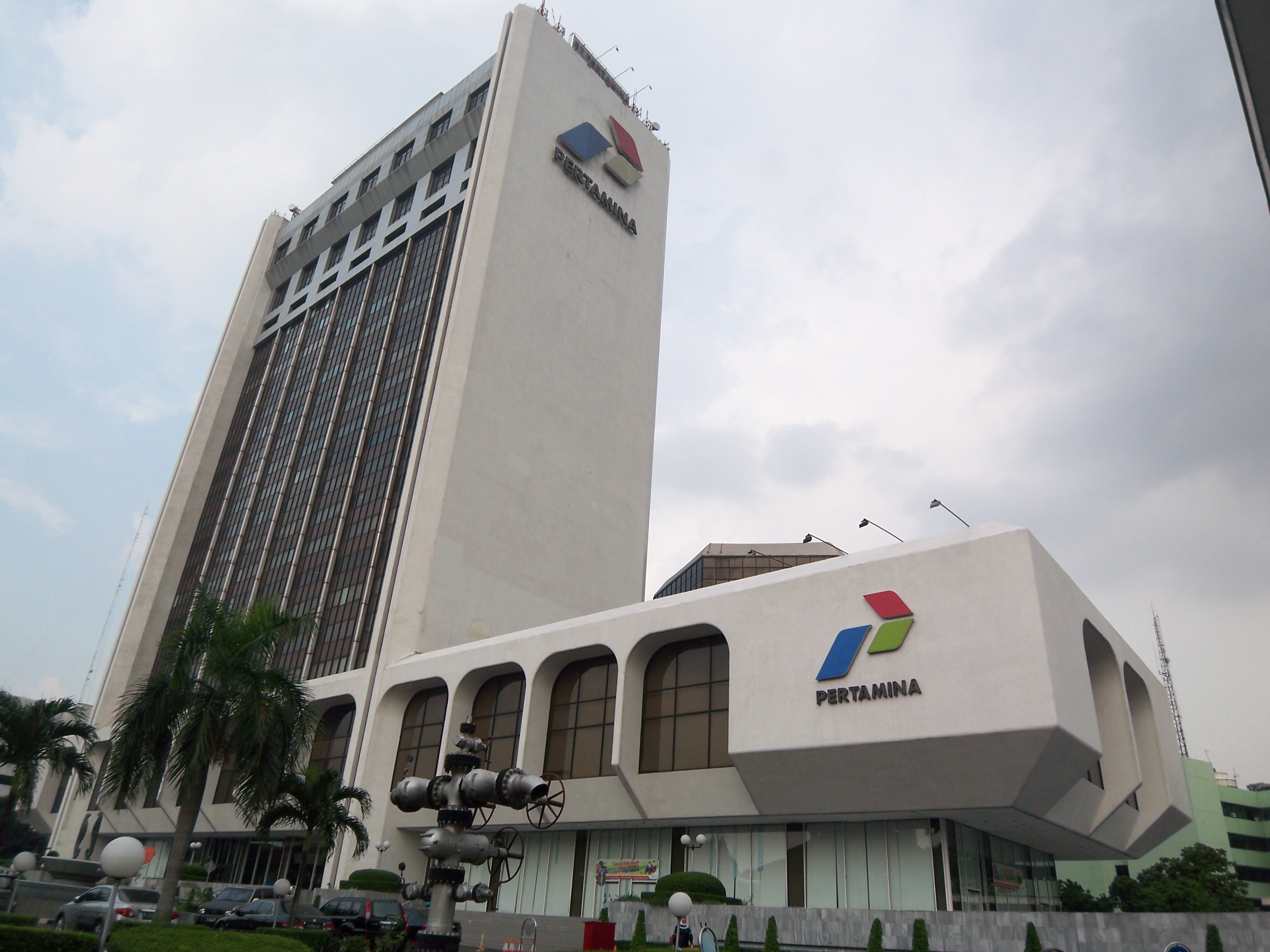 This is the head quarter building of PT. Pertamina, a state oil owned company from Indonesia.